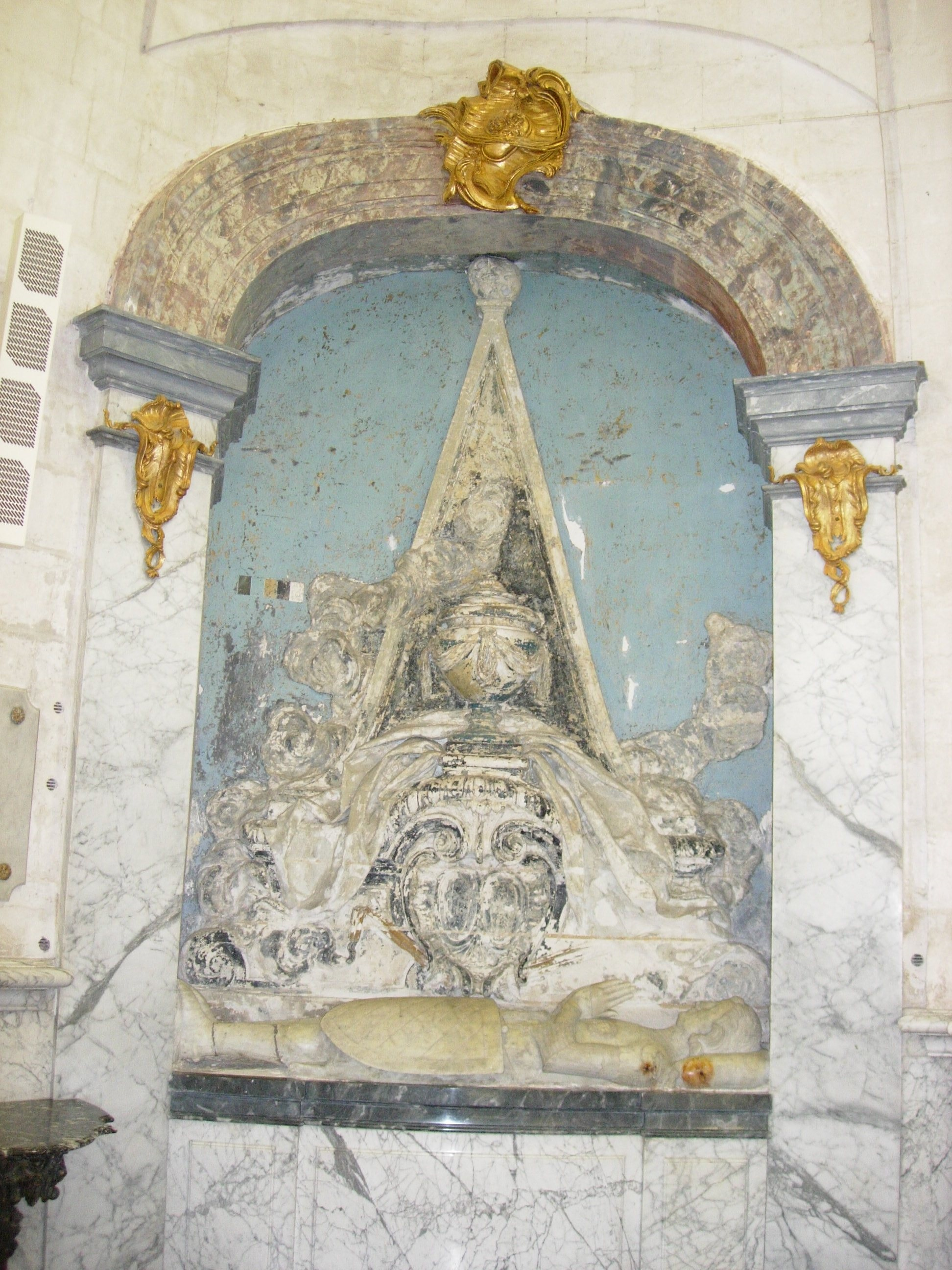 cenotaph, Simon de Dammartin, Count of Ponthieu